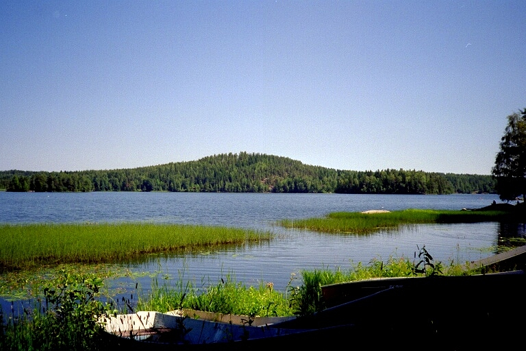 Lake Katumajärvi in Hämeenlinna, Finland. Kappolanvuori hill on the background.